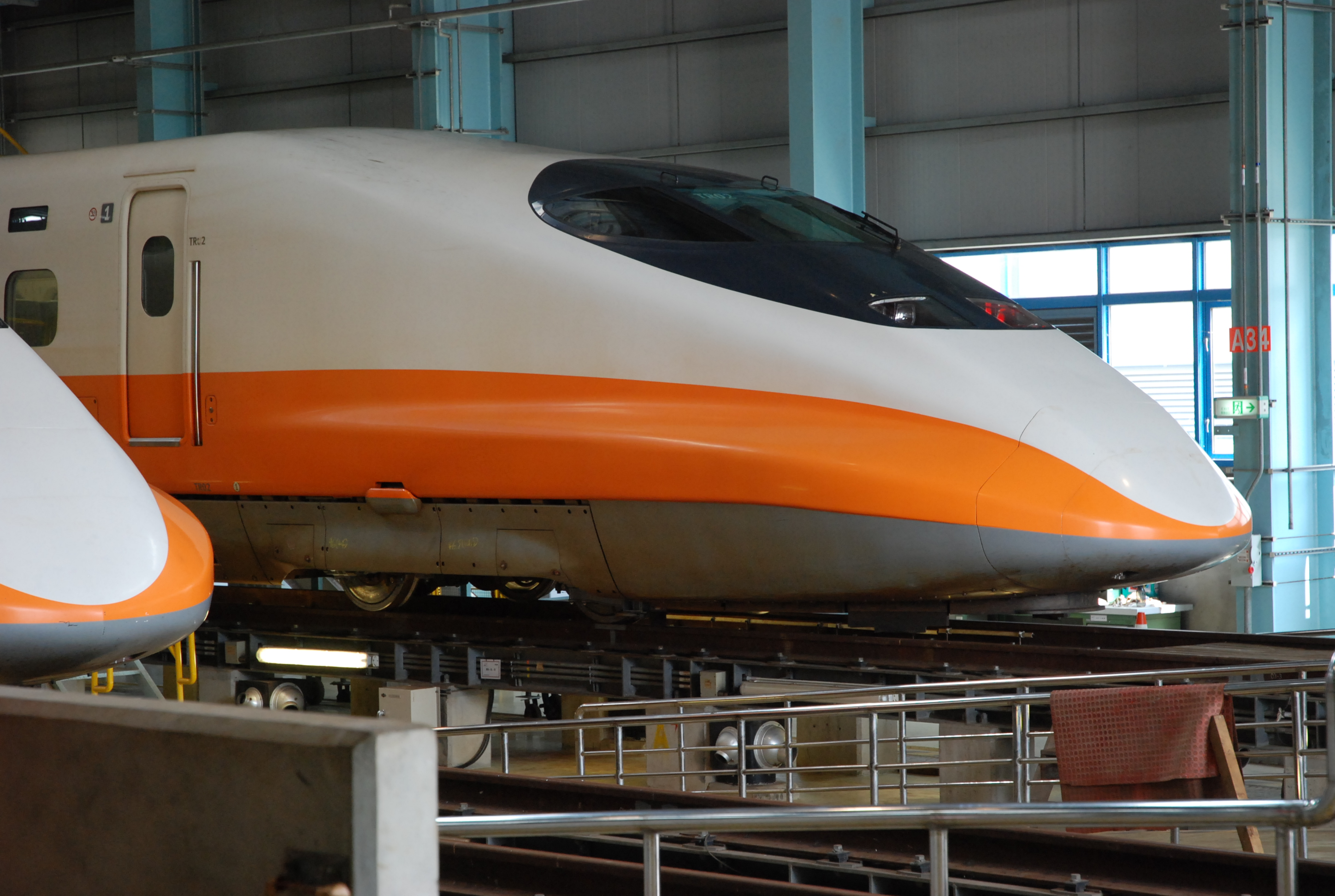 Taiwan High Speed Rail 700T Front